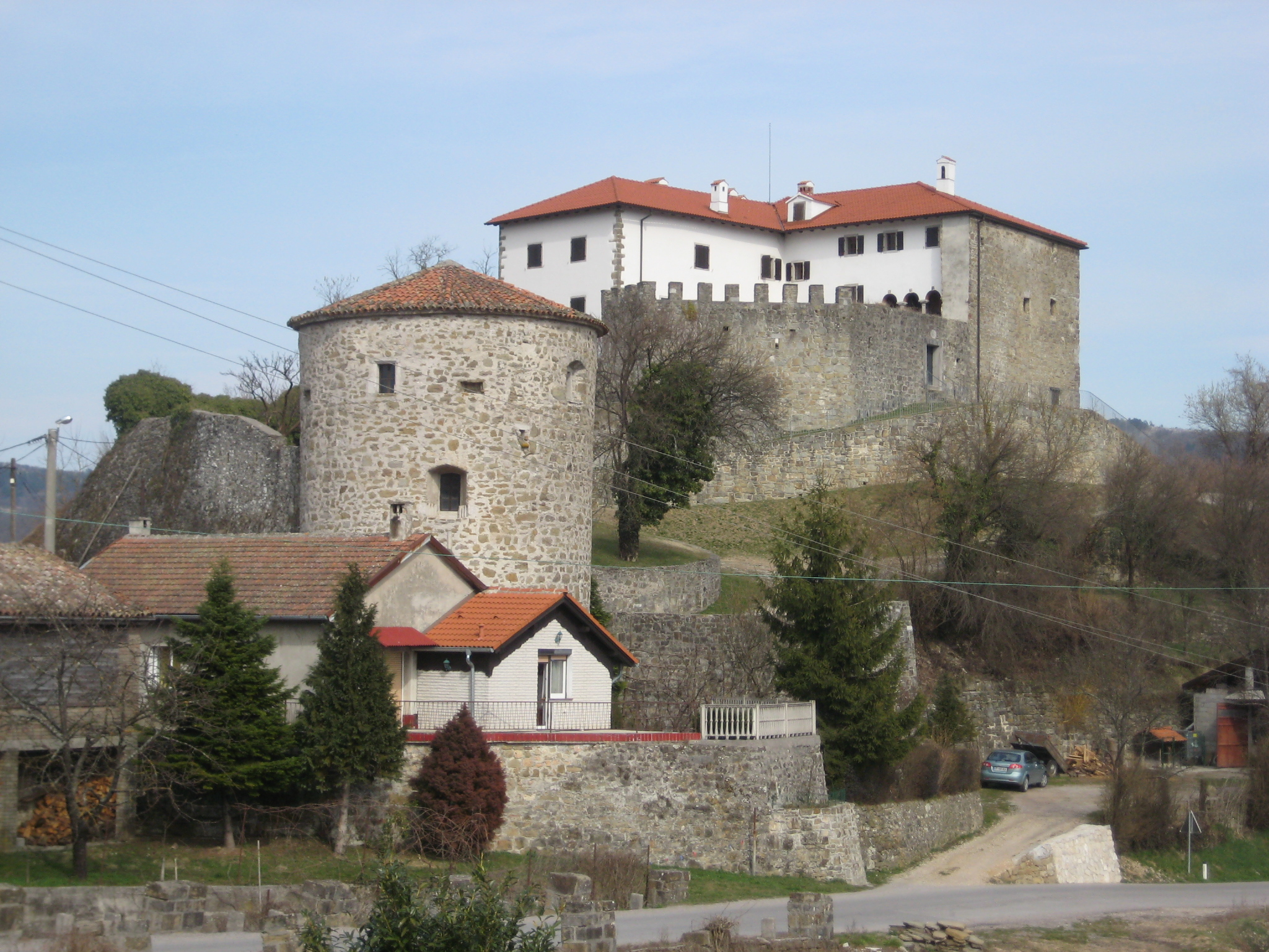 Prem Castle, Slovenia